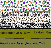 Underground sealing of a landfill.